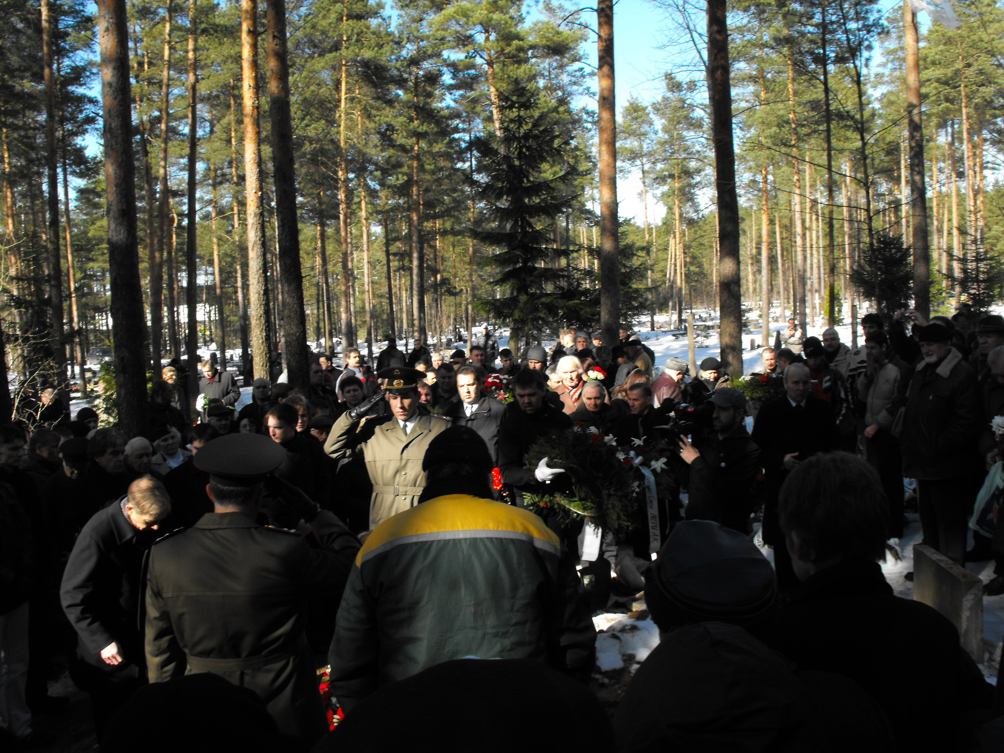 The funeral of Hero of the Soviet Union Arnold Meri in Tallinn on 1 April 2009.